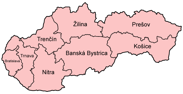 Map of the regions of Slovakia in English. Made by User:Golbez.